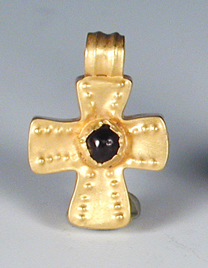 BYZANTINE. Gold cross pendant. Circa 5th-6th century AD. Length, including loop 22mm, weight 1.95 g. A hollow-work gold cross constructed of thin sheet gold, 3mm thick. The arms decorated with repoussé dots, a small cabochon garnet mounted in the center. Simple loop hanger. Although not hinged, this may have served as a reliquary, with a small holy artifact sealed inside.